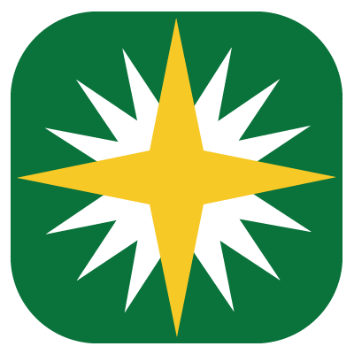 Escudo Universidad Católica de Oriente